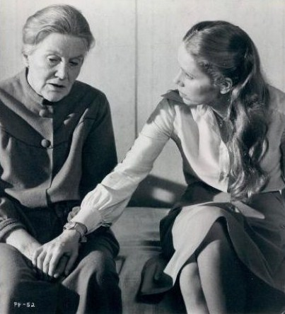 Aino Taube and Liv Ullmann in Face to Face.